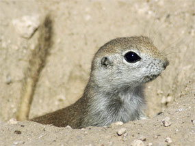 Round-tailed Ground Squirrel (Spermophilus tereticaudus)